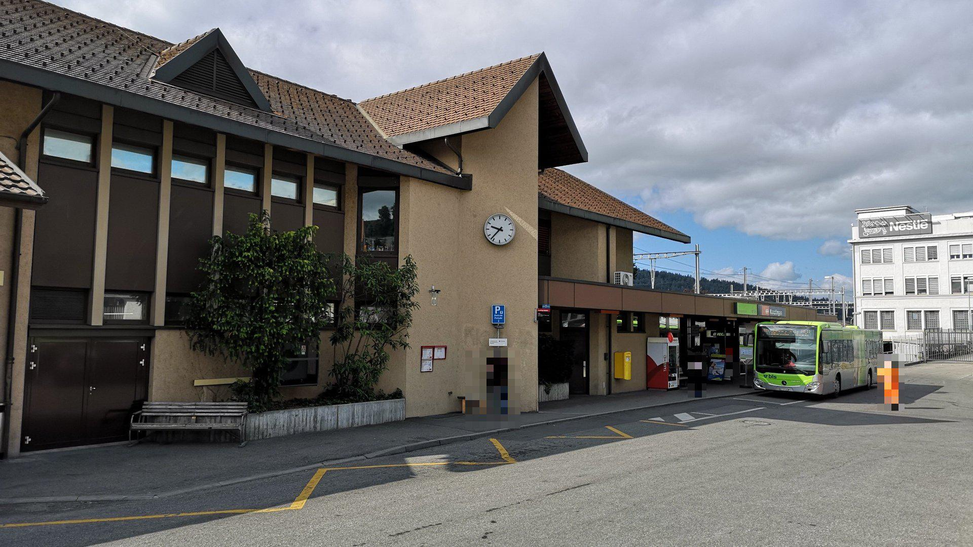 Konolfingen railway station in Konolfingen, Switzerland.